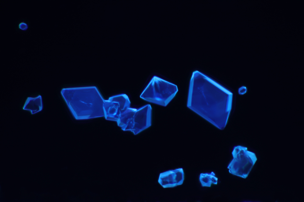 9,10-Diphenylanthracen aus Xylol, monoklin, mikroskopische Aufnahme, beleuchtet mit Schwarzlicht